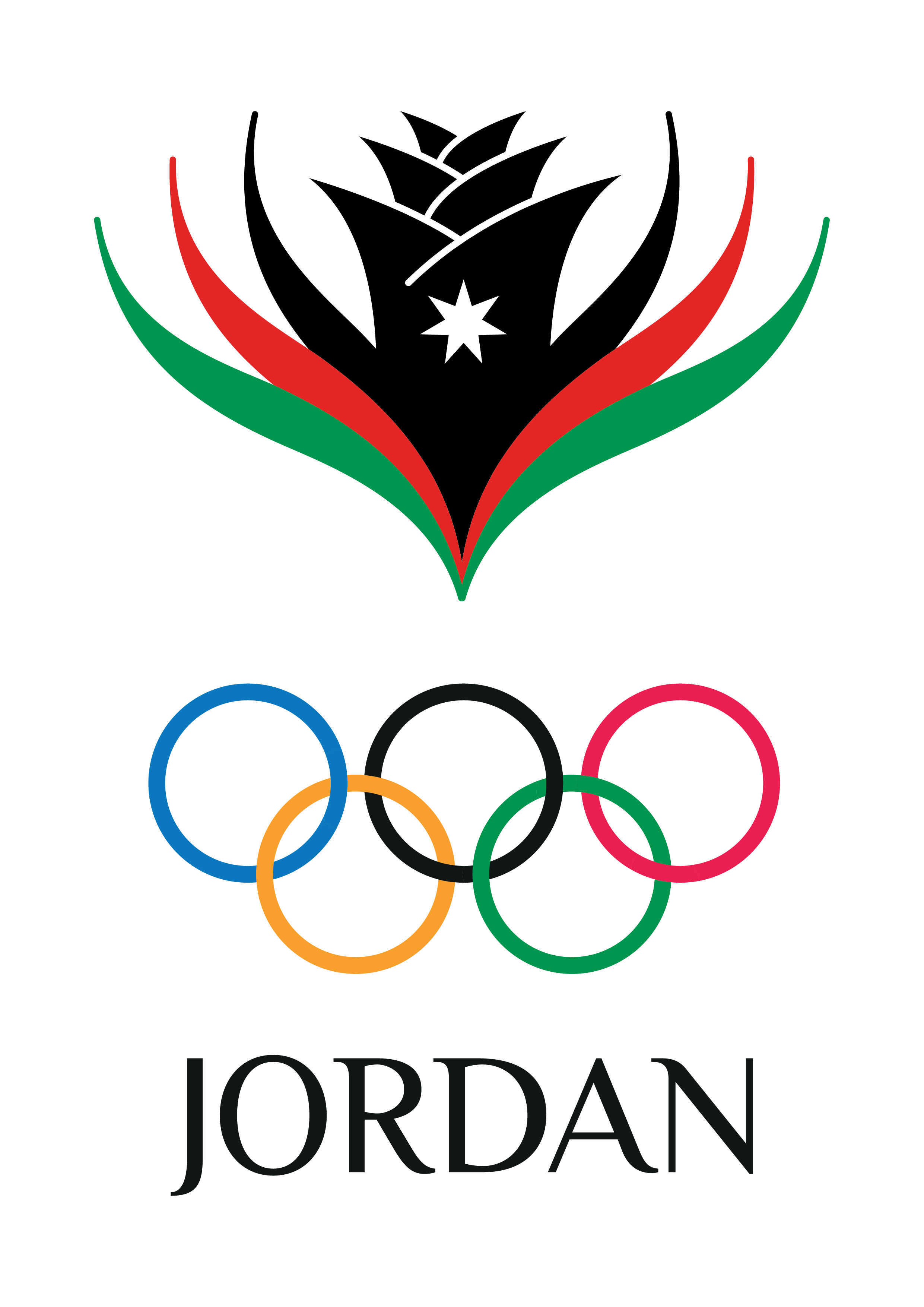 Jordan Olympic Committee logo